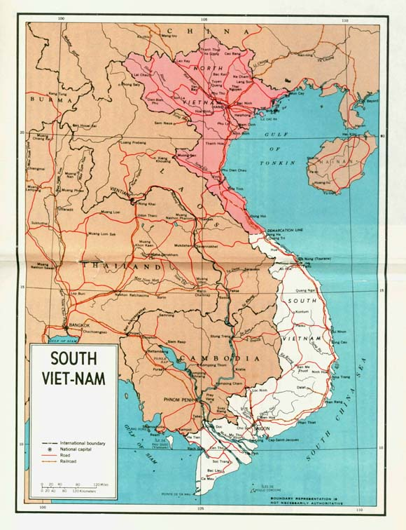 Map of a partitioned Vietnam from a 1964 U.S. Government pamphlet.